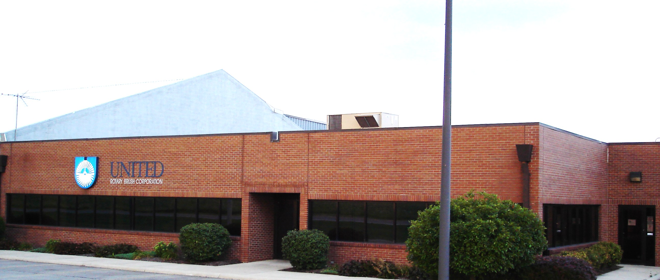 United Rotary Brush, Marysville, Ohio, United States